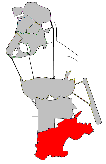 Parish in Macau